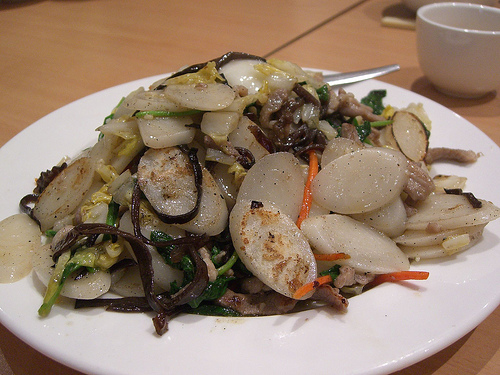 Shanghai Nian gow Year cakeShanghai Nian gow Year cake